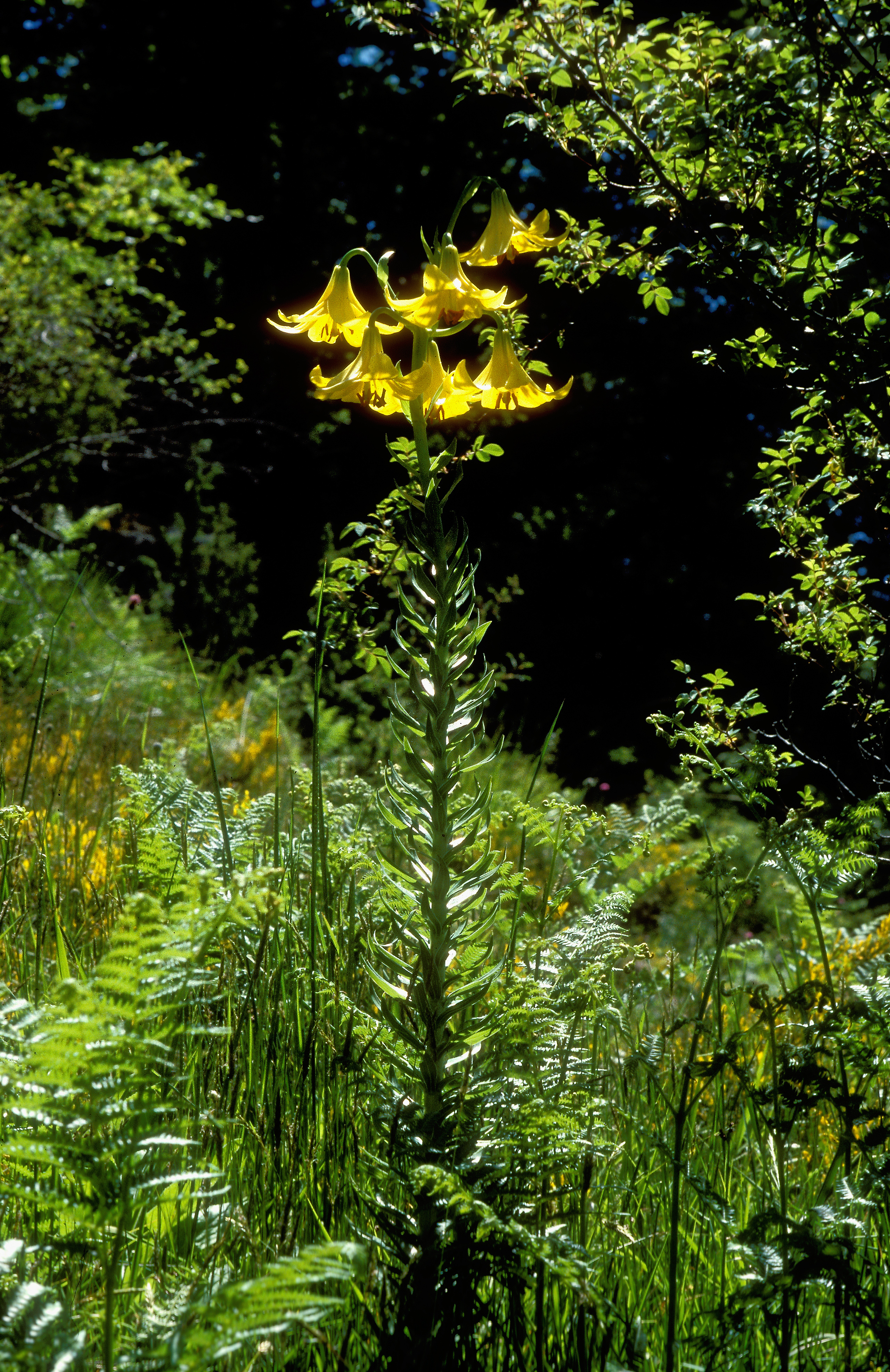 Lilium rhodopeum in habitat at Rhodope Mountains, Livaditis, Greece